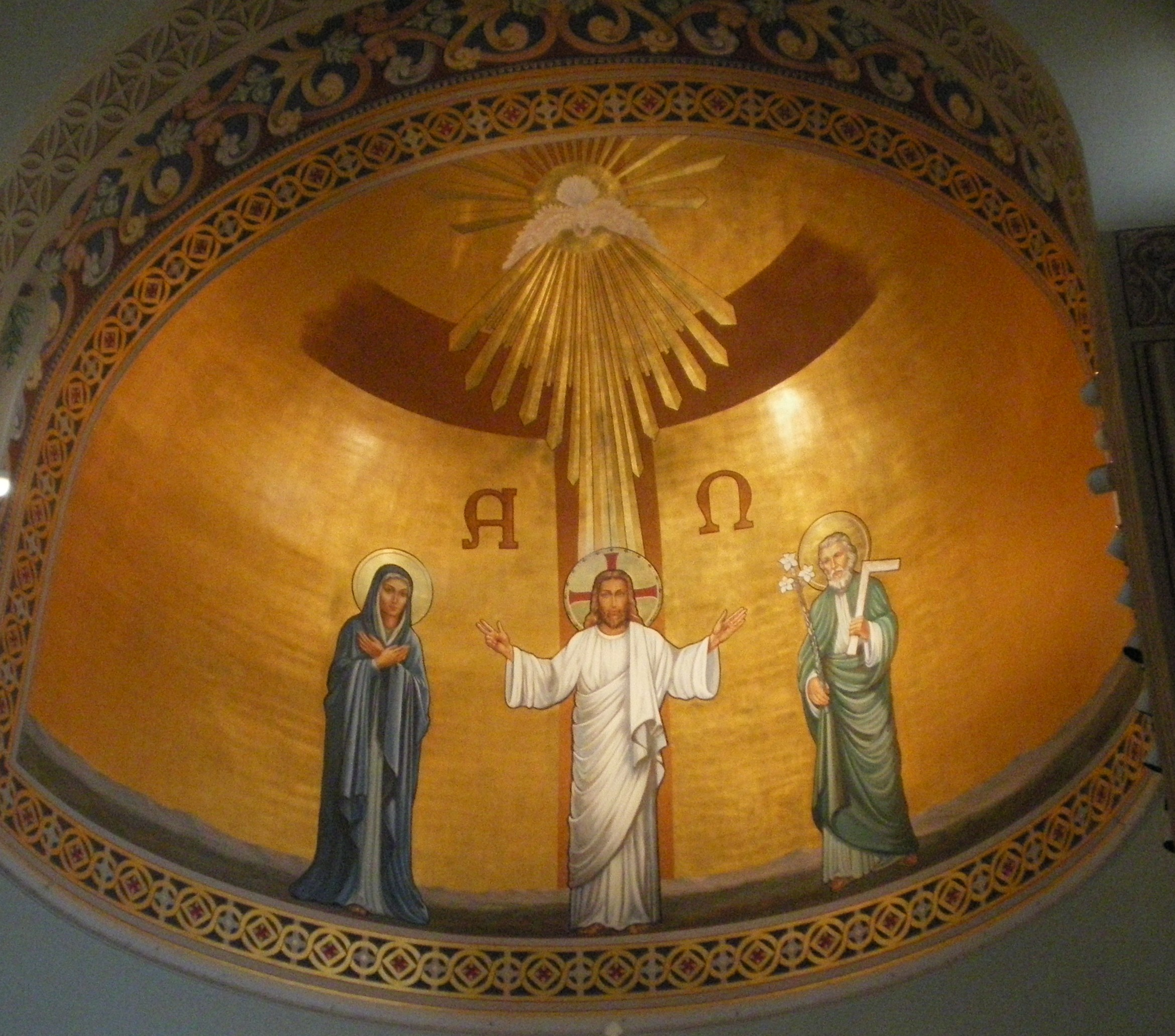 Interior of Dome at St. Monica Catholic Church, Santa Monica, CA St. Monica Catholic Church, Santa Monica, CA